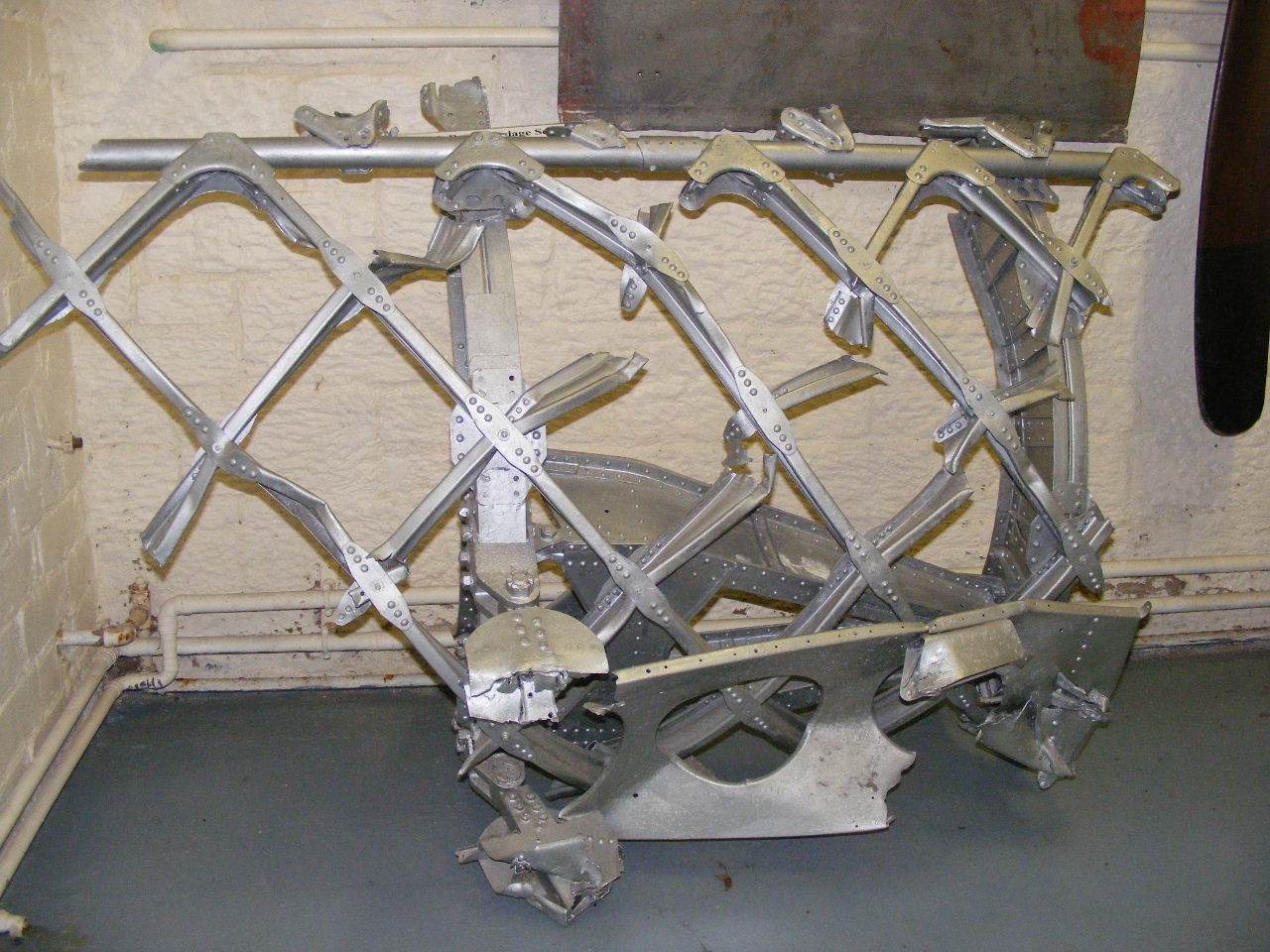 Rear fuselage section of the Vickers Warwick showing the geodesic construction of duralumin alloy